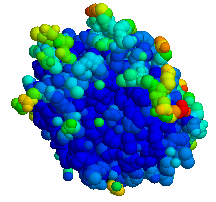 Elastase, a serine protease, drawn from 1B0F.PDB by User:Jfdwolff